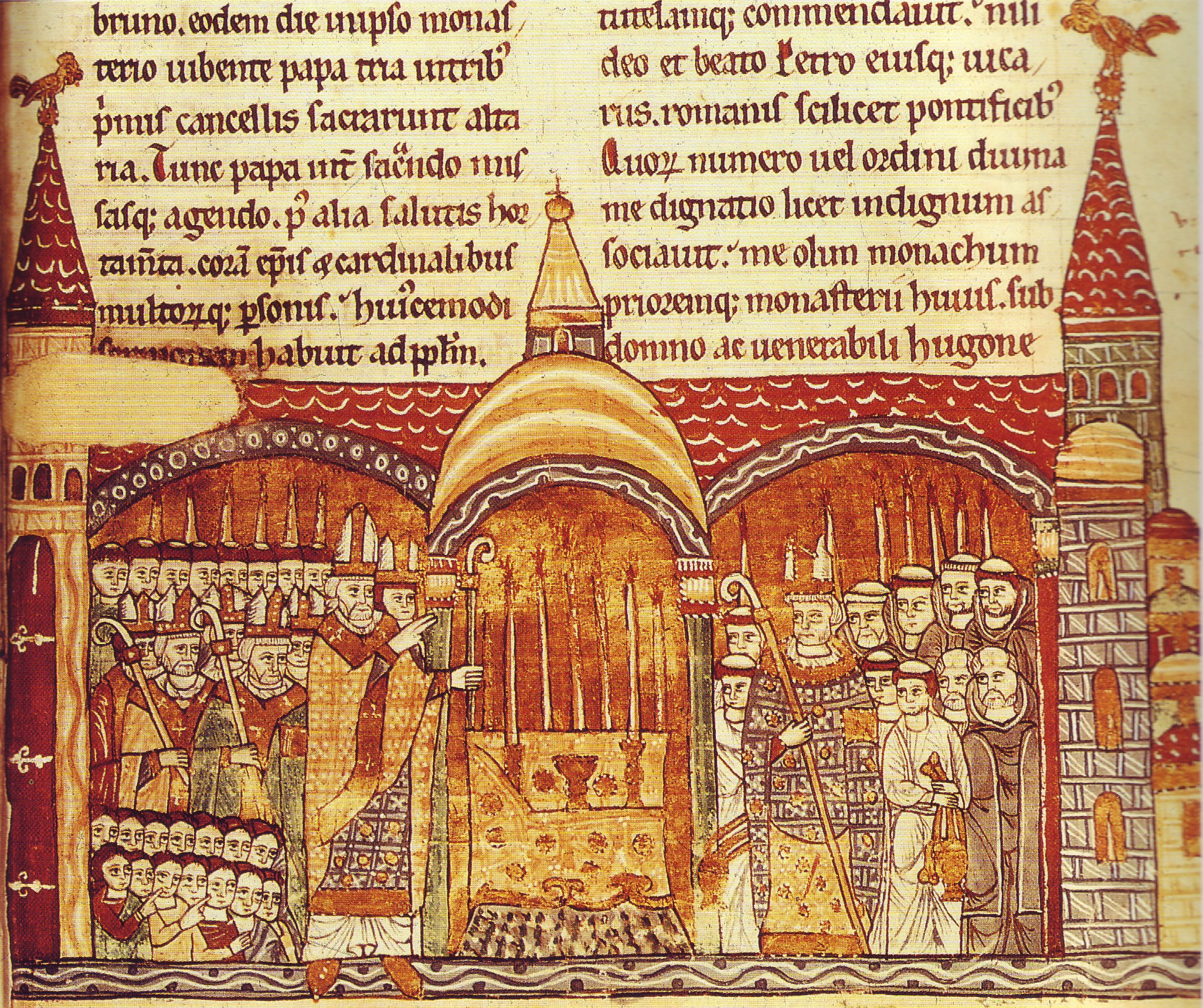 Pope Hurbanus II in Cluny